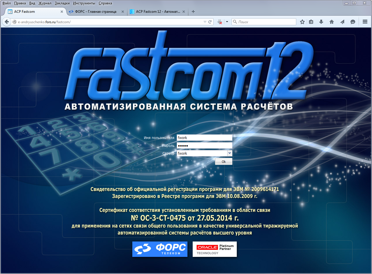 Screenshot of the first page - ACP Fastcom 12 identification